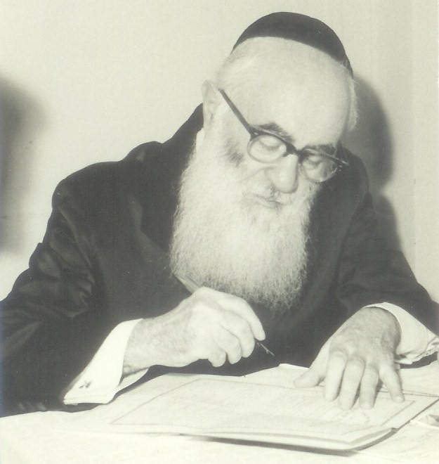 Yehosha Kaniel